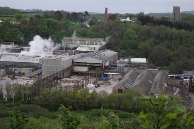 Looking down on Wansborough Papermill